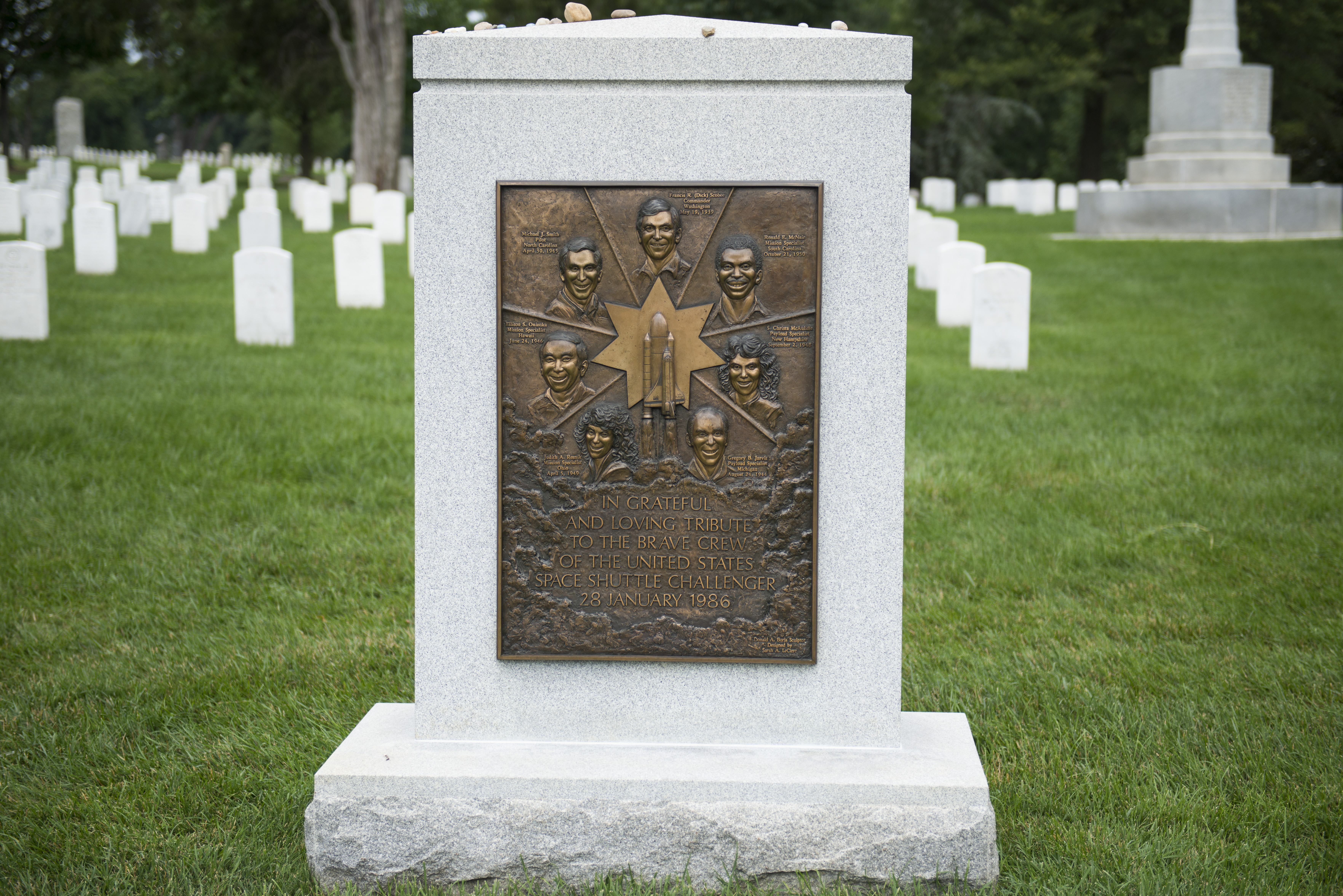 Space Shuttle Challenger Memorial is located near the Memorial Amphitheater in Arlington National Cemetery, June 16, 2015, in Arlington, Va. The monument is dedicated to the seven crew members who died with the Space Shuttle Challenger exploded on Jan. 28, 1986, just seconds after take-off. (U.S. Army photo by Rachel Larue/released)